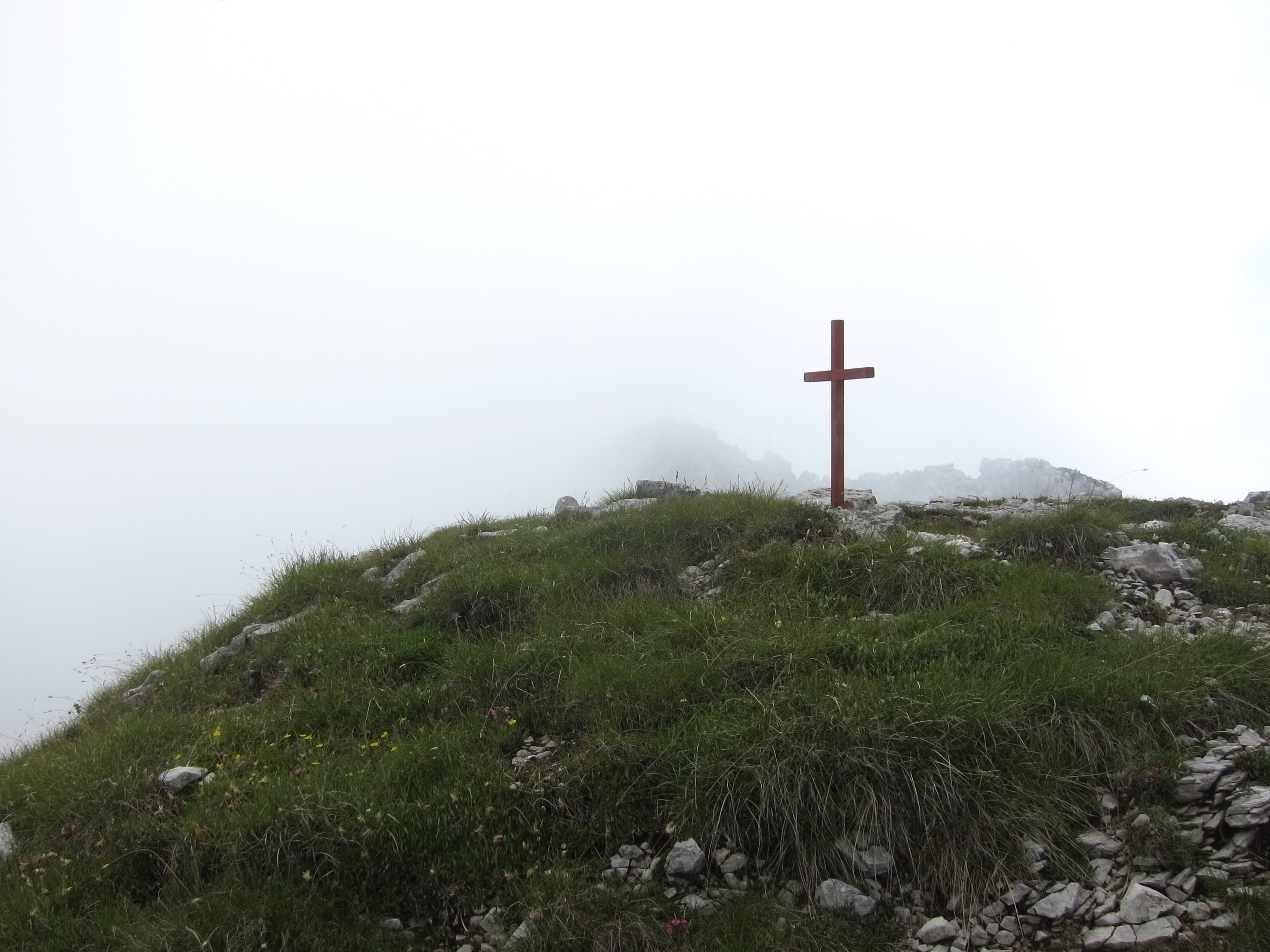 The summit metal cross on the top of the peak Punta Stoppani of the Resegone mountain. The top is 1849 meters above sea level, in the municipality of Lecco, in the region Lombardy in Italy. The peak that appears from the fog in the background is the Punta Cermenati that is the highest point of Mount Resegone. Picture taken on the 26th of june in 2020. 2020-06-26